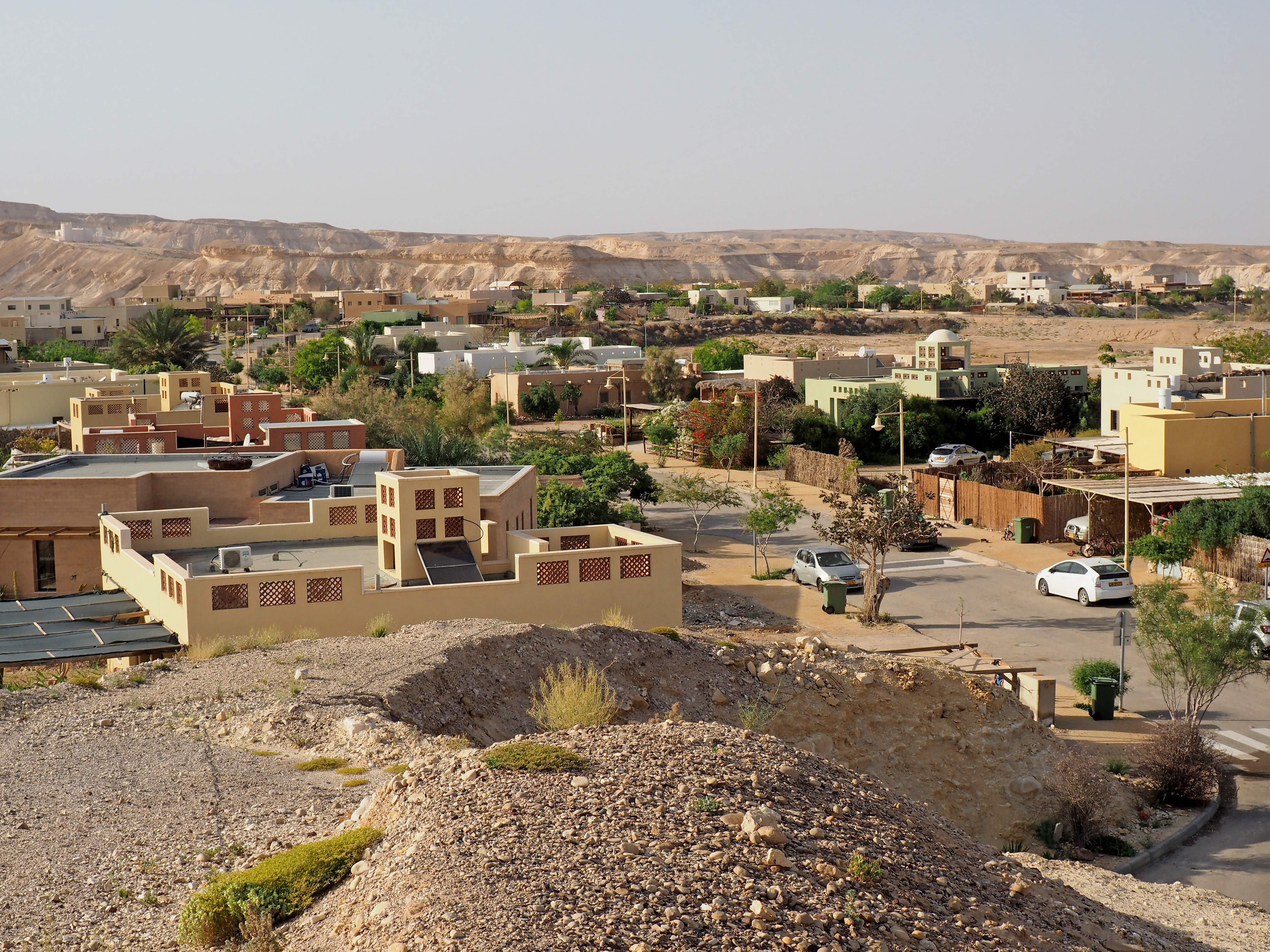 Tzukim, a general view, 2020.